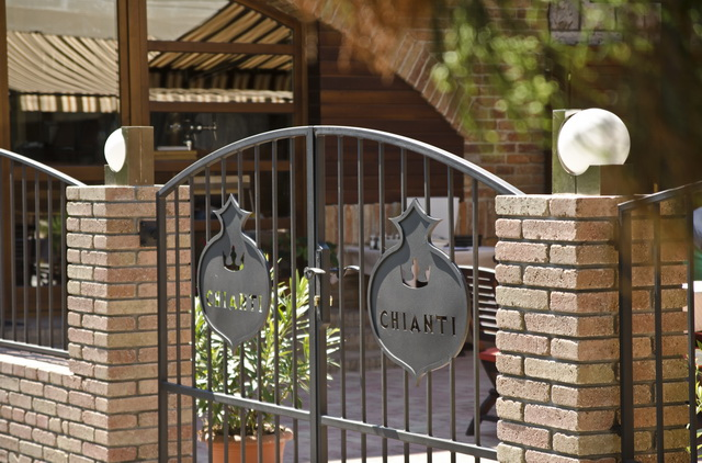 Chianti terrace